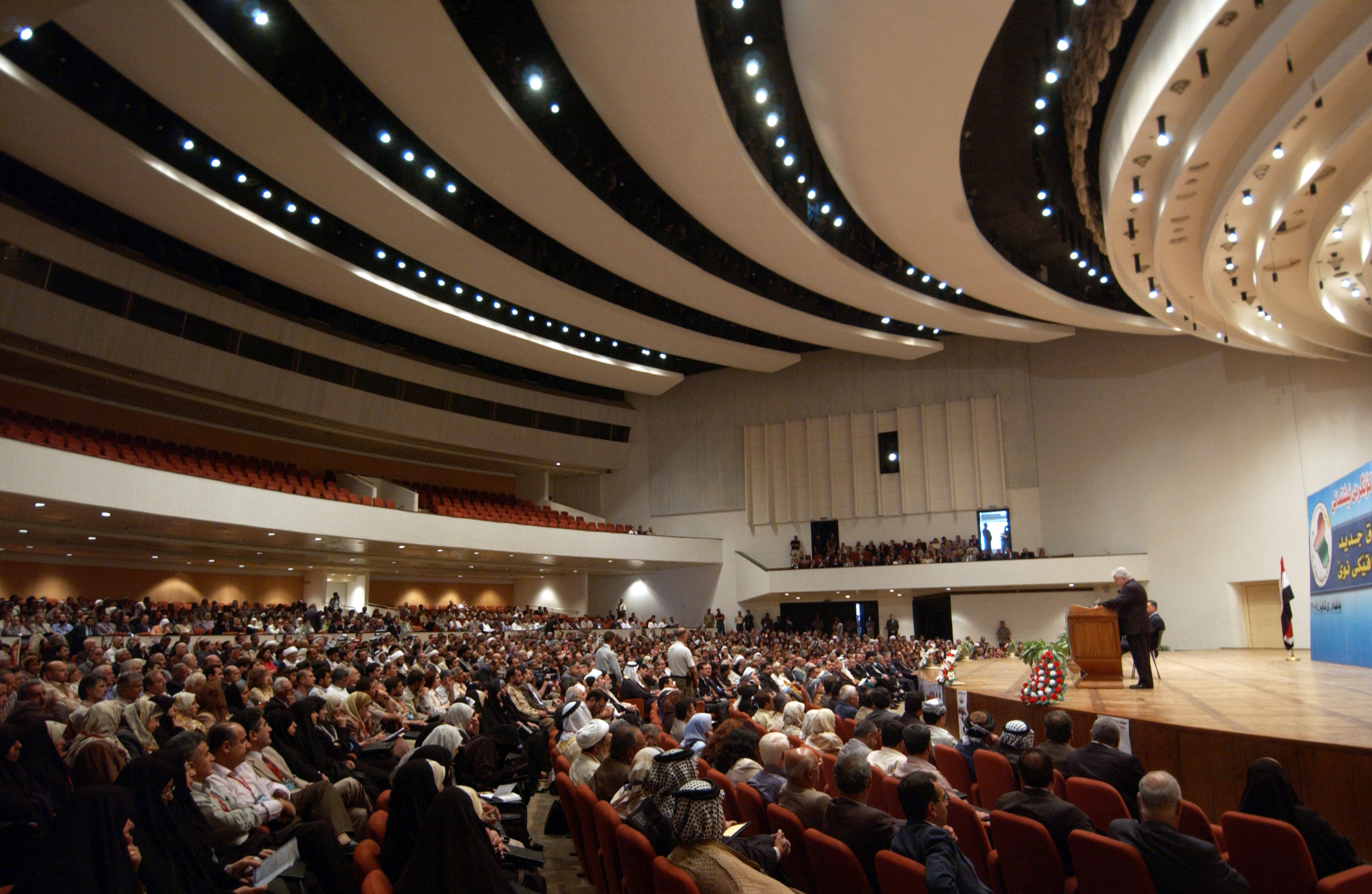 Inside of the Baghdad Convention Center, where the Council of Representatives of Iraq meets. This photo shows delegates from all over Iraq convening for the Iraqi National Conference.